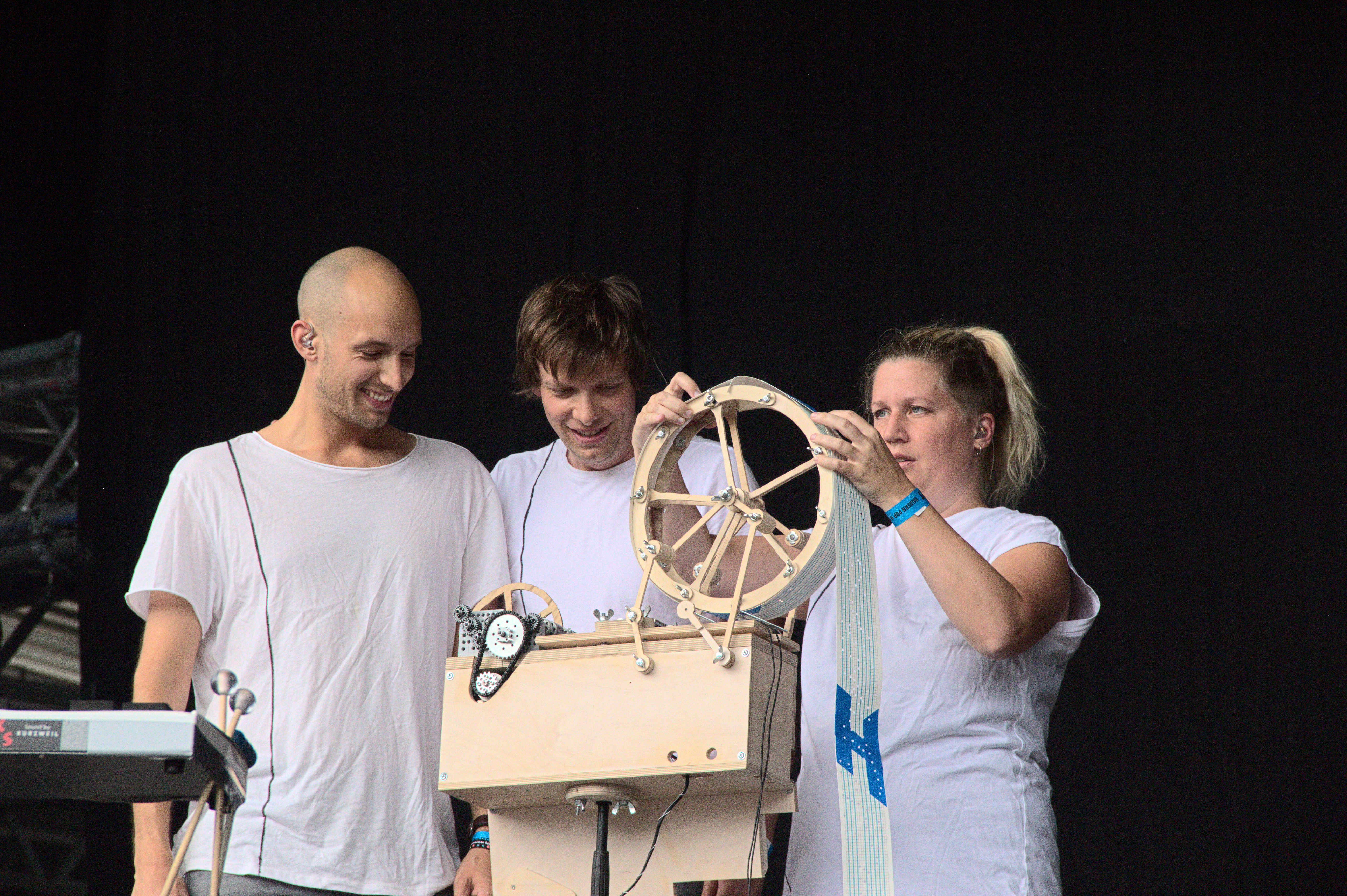 Wintergatan at Haldern Pop Festival 16